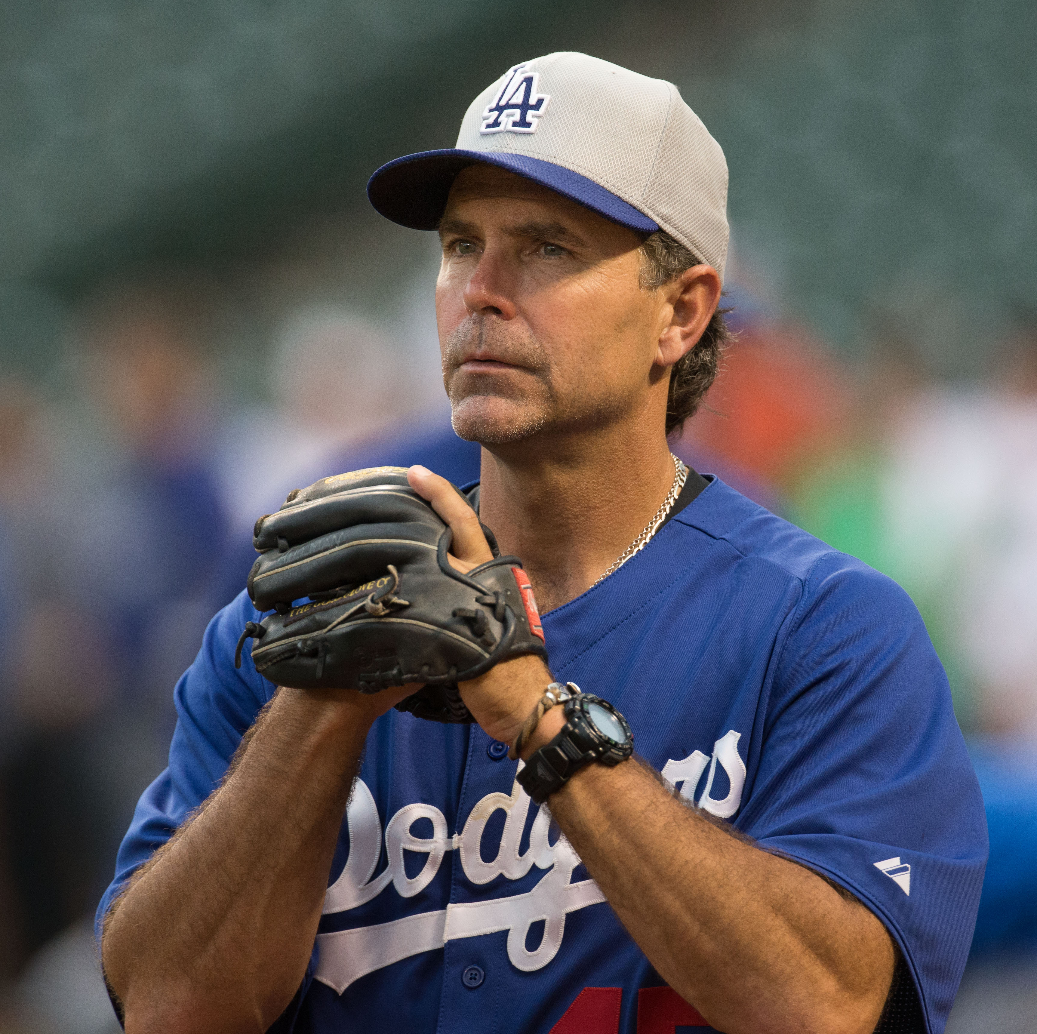 Los Angeles Dodgers at Baltimore Orioles April 19, 2013